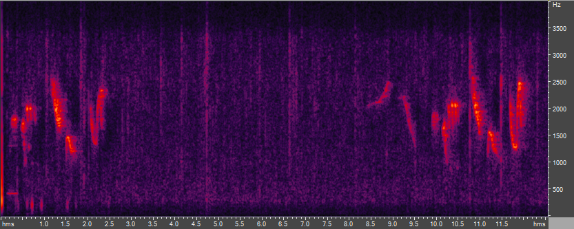 Sonogram of White-rumped Shama based on the call recording Sorry, your browser either has JavaScript disabled or does not have any supported player. You can download the clip or download a player to play the clip in your browser.